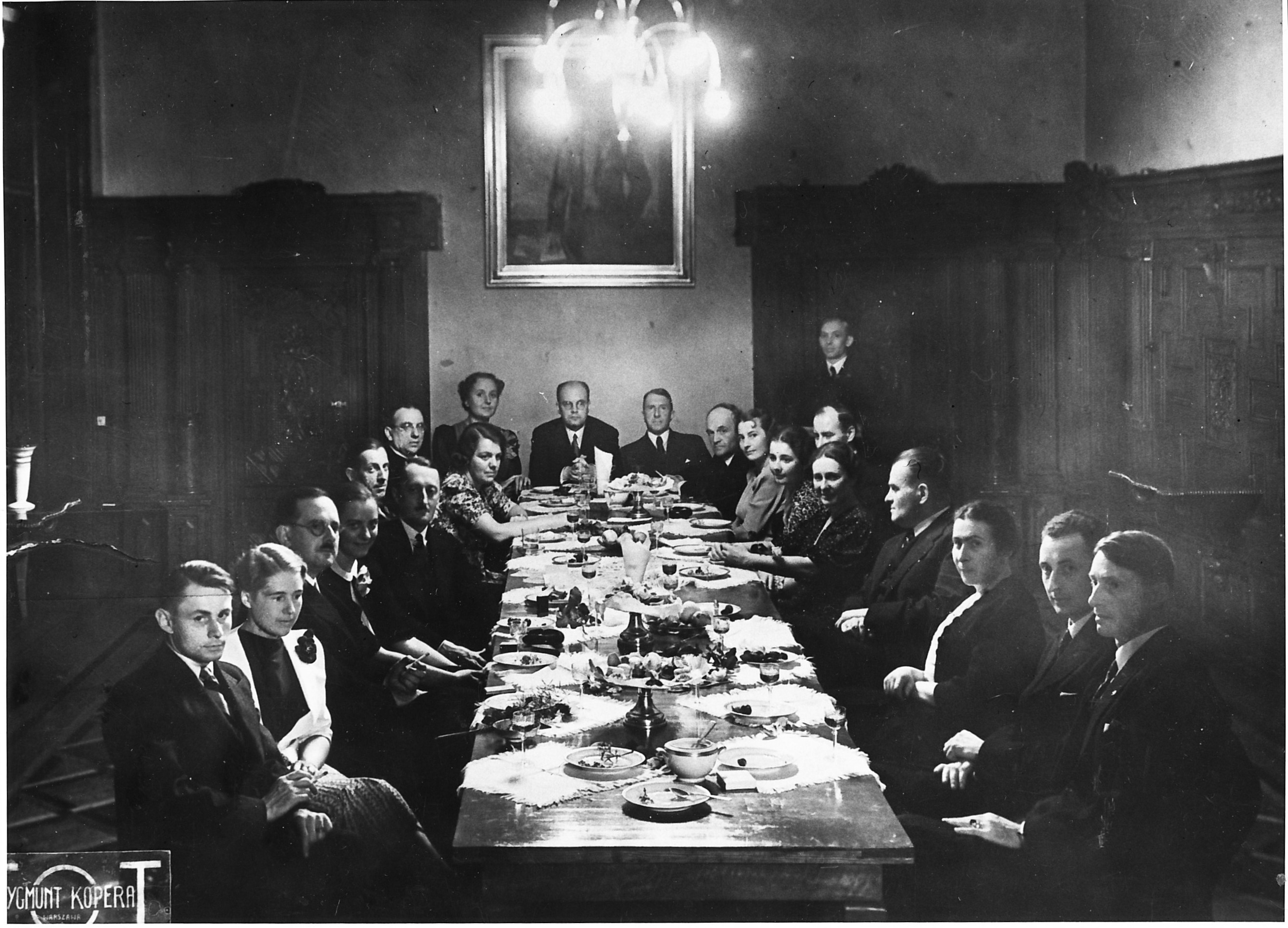 Assembly of Fine Arts Section of Ministry of Religious Denominations and Public Education, Warsaw, Poland in 1930ies